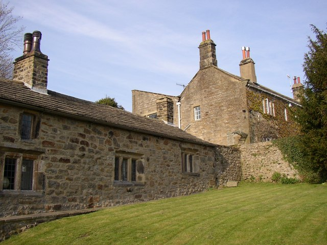 Part of the front of Beamsley Hospital, North Yorkshire: The range of almshouses facing the road.